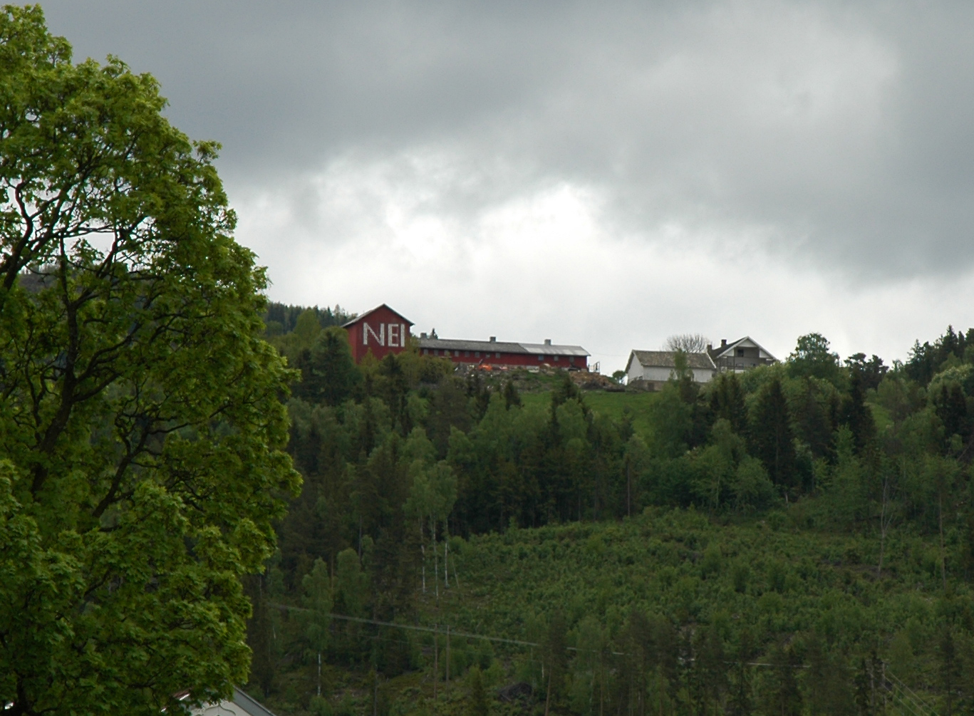 Photography by Leif Knutsen. Brumunddal, Norway.